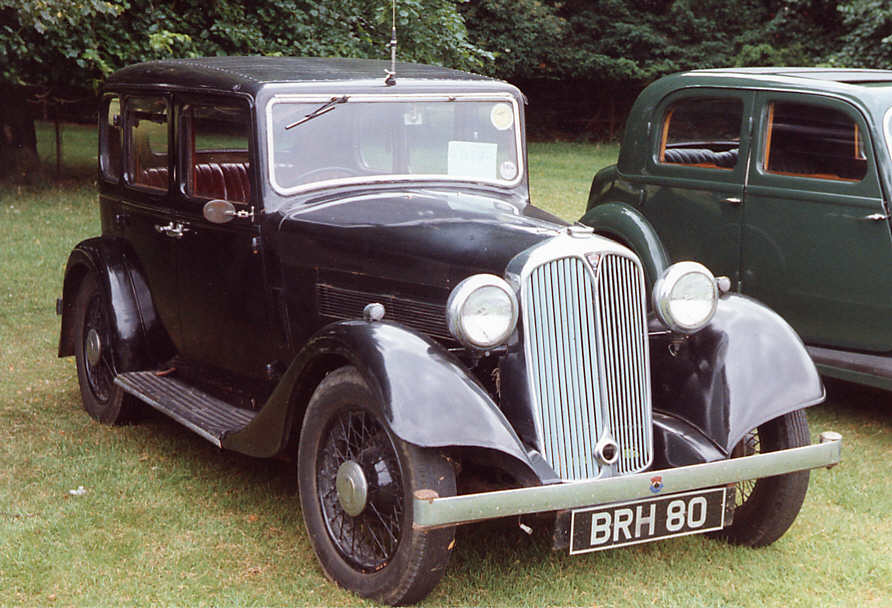 Rover 10hp of 1936 (DVLA) first registered 16 January 1936 1389 cc